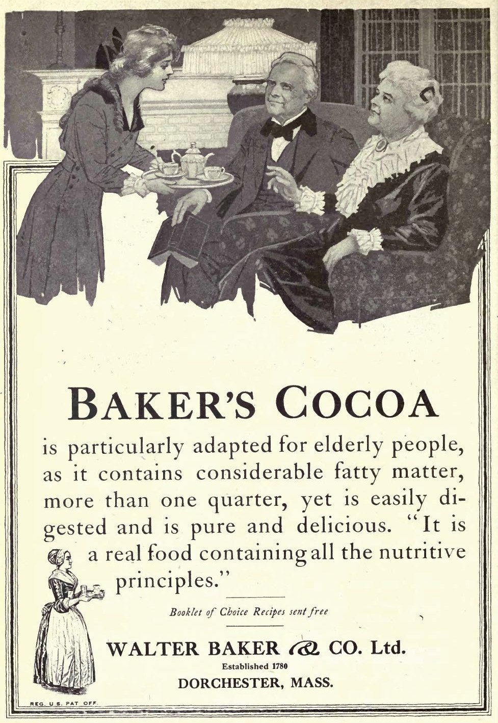 Baker's Cocoa Advertisement in January 1919 Issue of Overland Monthy